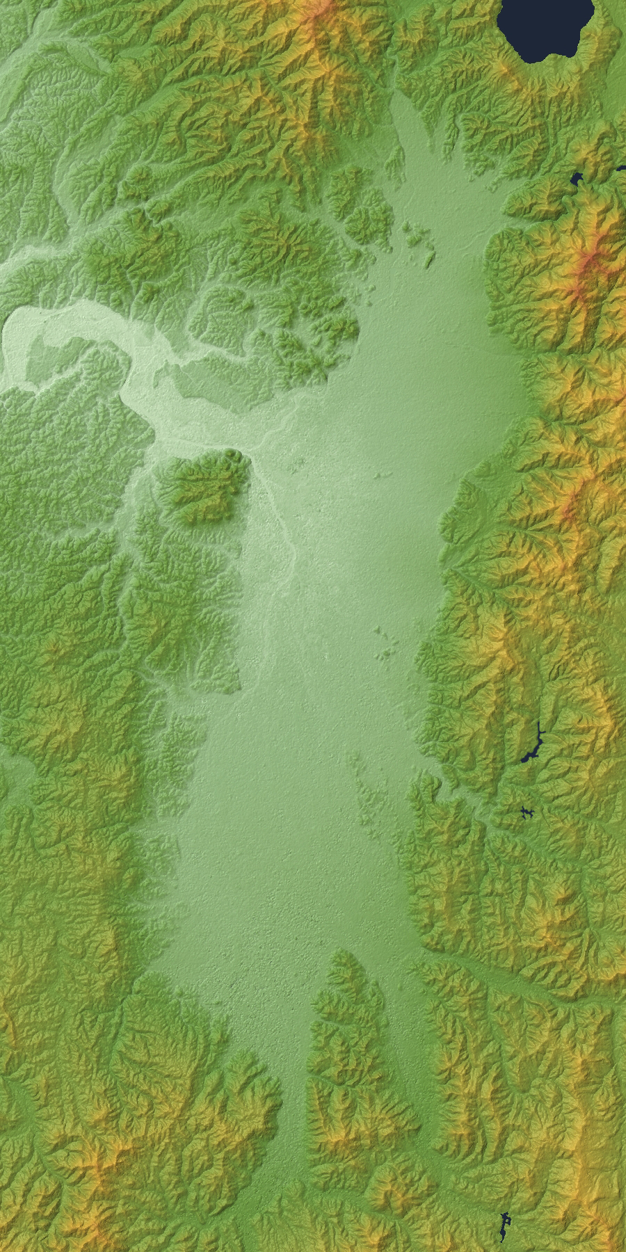 Yokote Basin in Akita Prefecture, Honshu, Japan.